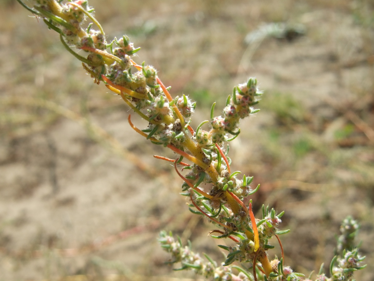 Bassia laniflora, sand dune at Darmstadt-Eberstadt, Hessia, Germany.